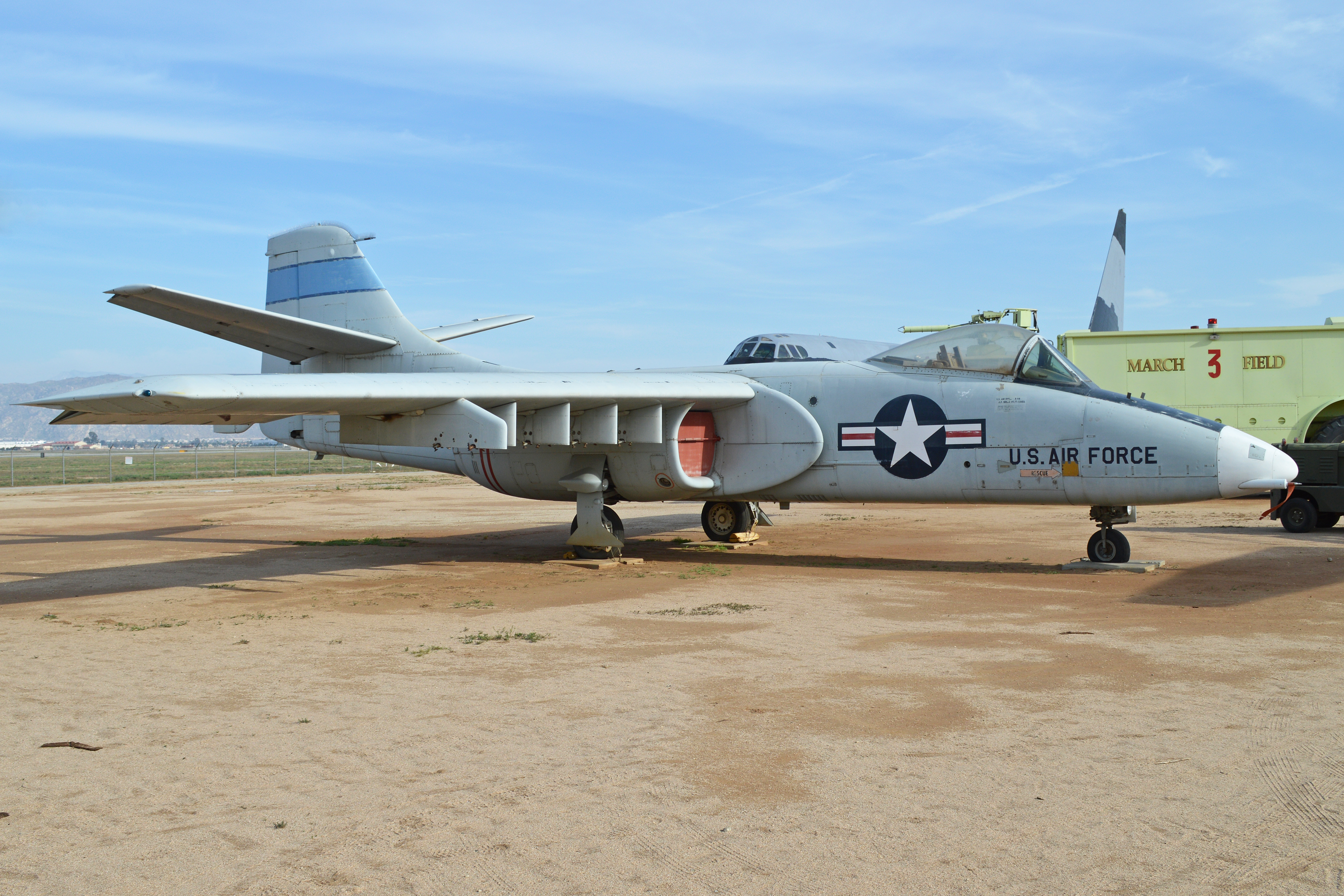 Full US military serial 71-1368. One of two prototypes built in 1972 to compete against the Fairchild YA-10 for a new USAF close air support aircraft. The YA-9 was unsuccessful while the YA-10 became the legendary A-10 Thunderbolt II. On display at the March Field Air Museum, Riverside, CA, USA. 28-2-2016